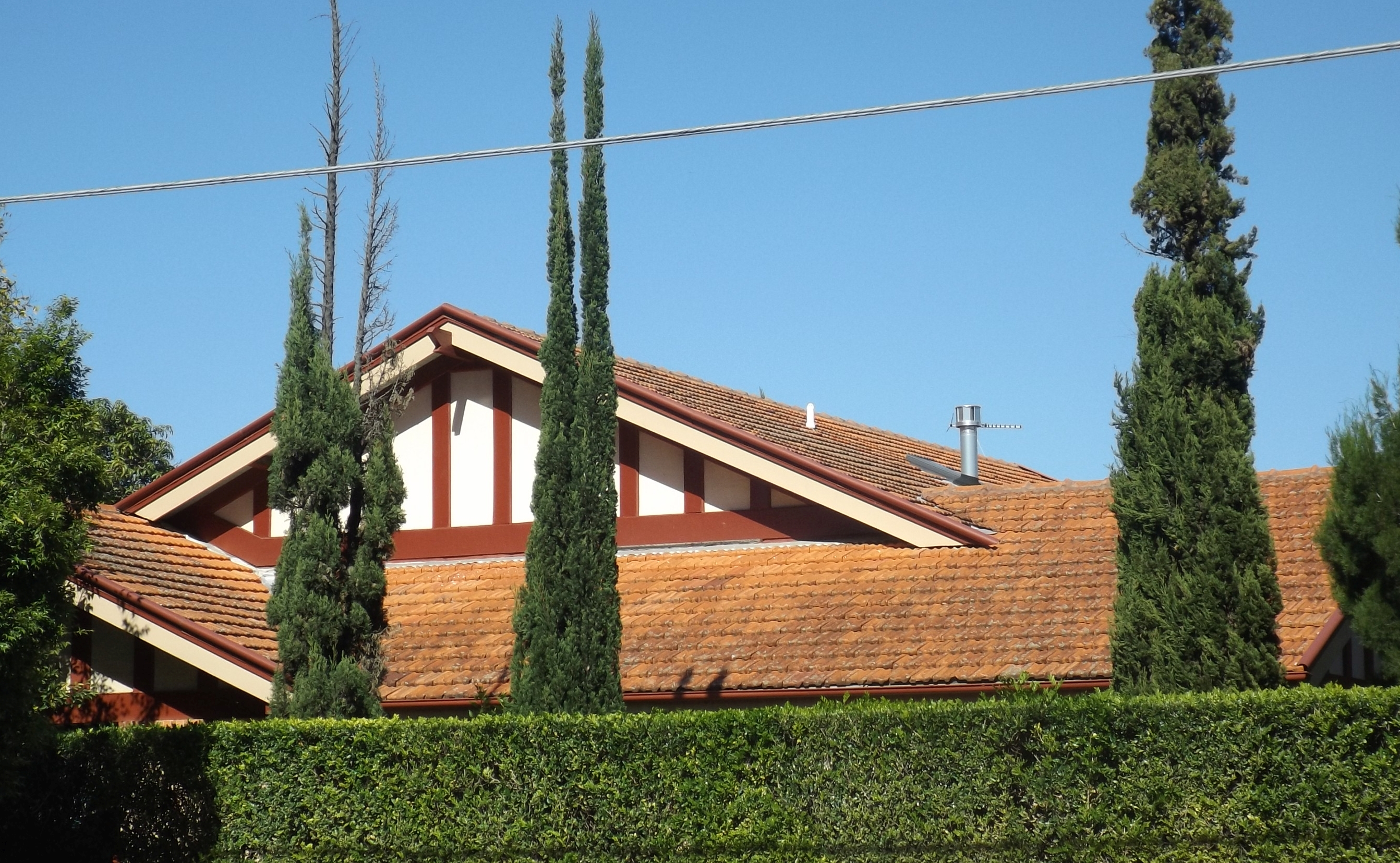 Photo of Musket Villa at Ascot, Brisbane, Queensland, Australia.